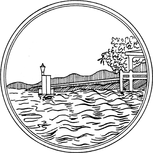 Provincial seal of Trang province.